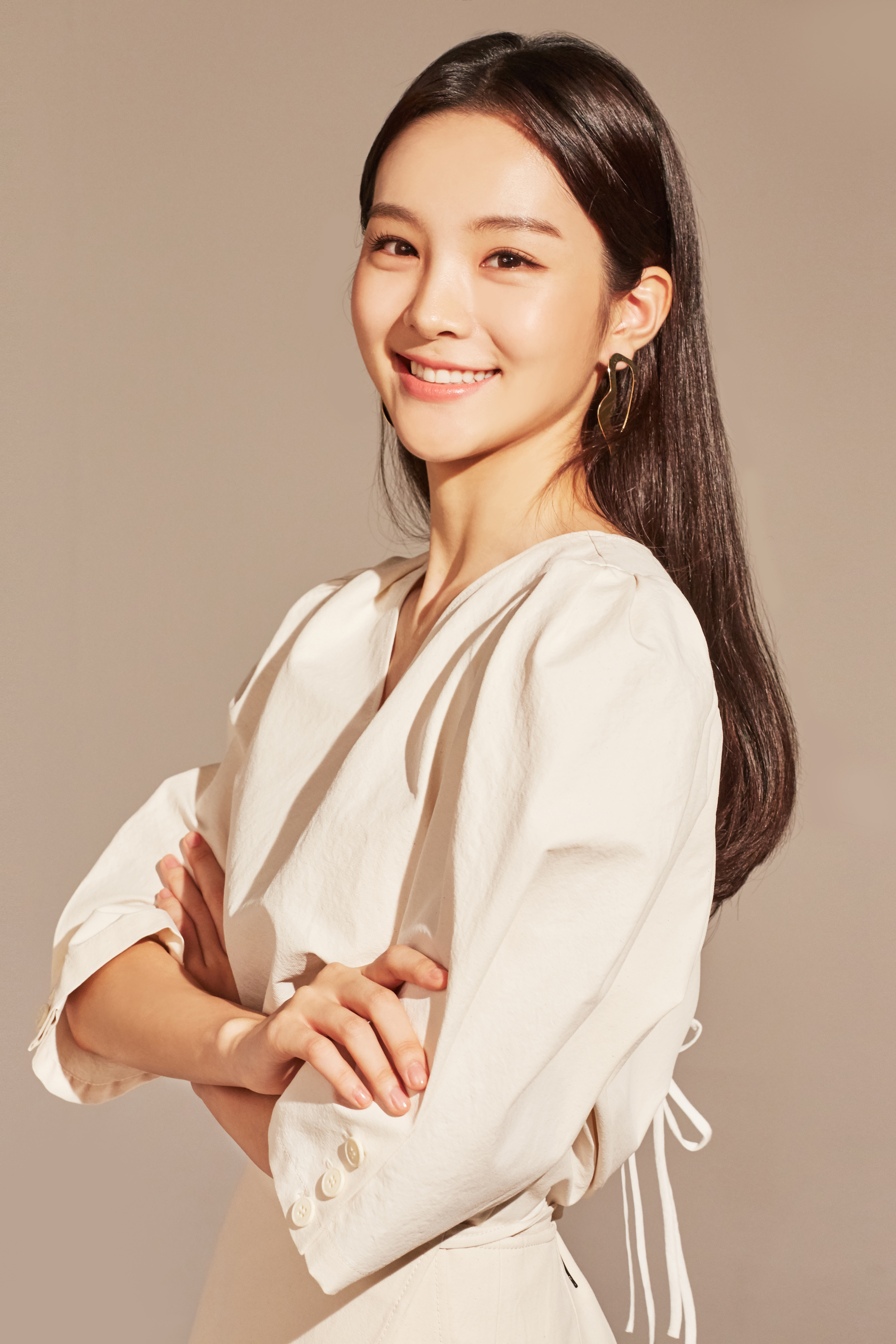 song sohee profil.jpg